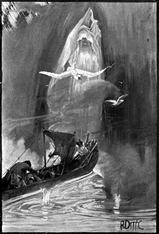 Illustration for Edgar Allan Poe's The Narrative of Arthur Gordon Pym, captioned "There arose in our pathway a shrouded human figure" - a line towards the very end of the novel. From Arthur Gordon Pym: A Romance By Edgar Allan Poe, published by Downey & co., 1898